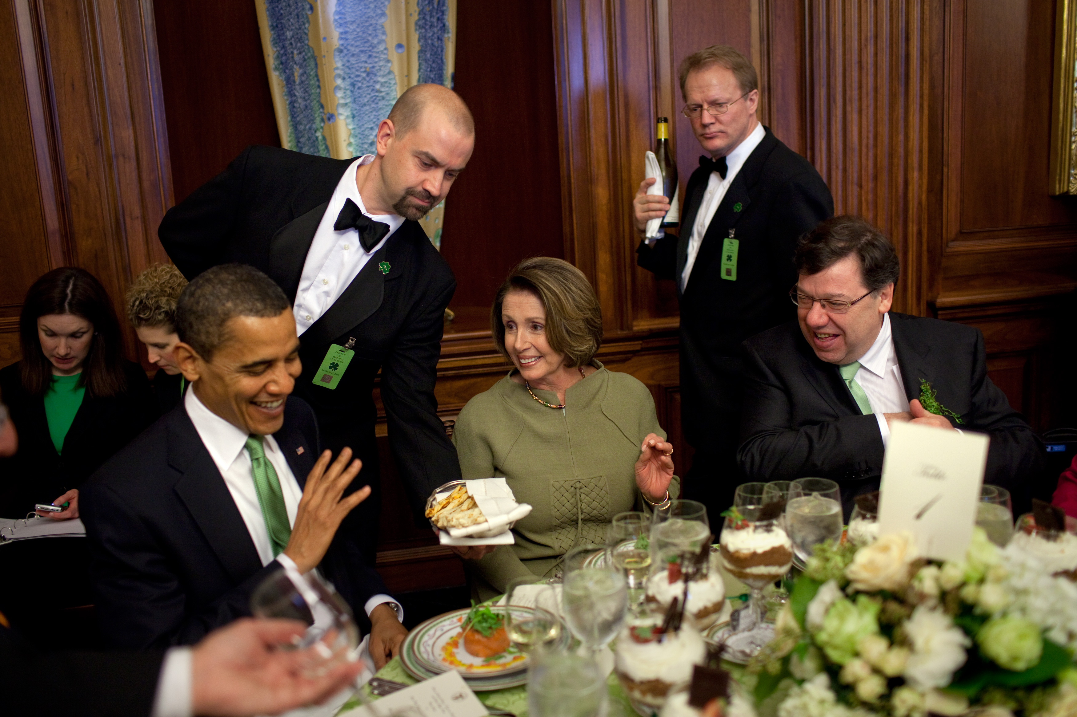 United States President Barack Obama and Irish Taoiseach Brian Cowen attend the annual House Speaker's Saint Patrick's Day Friends of Ireland luncheon hosted by Nancy Pelosi in the Rayburn Room of the U.S. Capitol, Washington D.C., March 17, 2009. Behind the waiter stands one of the two ceramic, art nouveau, Sèvres vases, nearly 67 inches tall, given to the United States by France in 1918 in gratitude for American help during World War I, which are now housed in the Rayburn Room, outside the Floor of the House of Representatives.